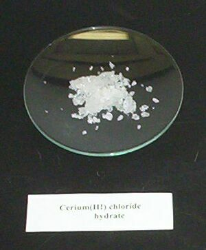 Sample of cerium(III) chloride